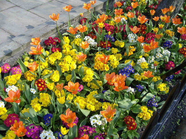 Spring bedding, South Shields A kaleidoscope of colour, outside St. Hilda's church.